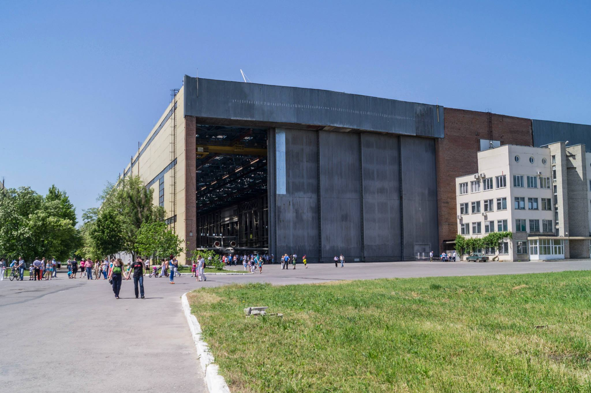 Beriev aircraft factory Taganrog